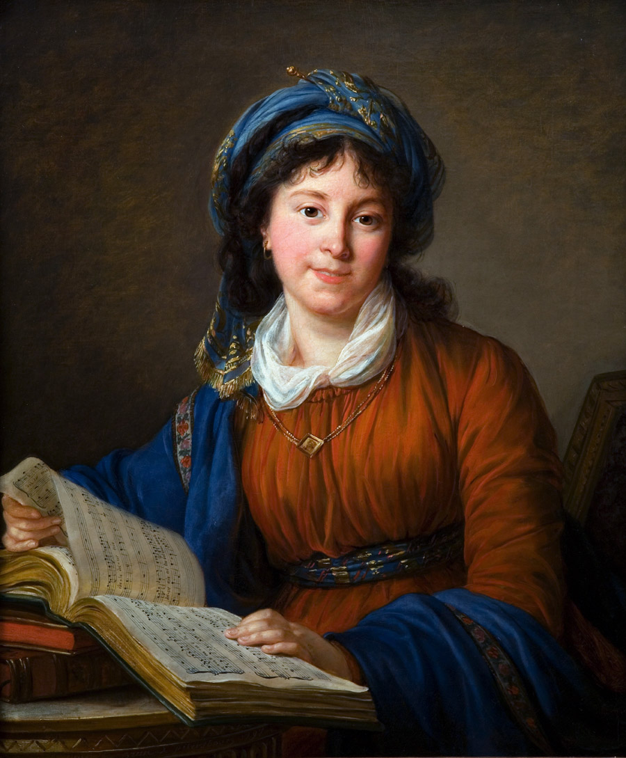 Princess Natalia Ivanovna Kourakia nee Golovina